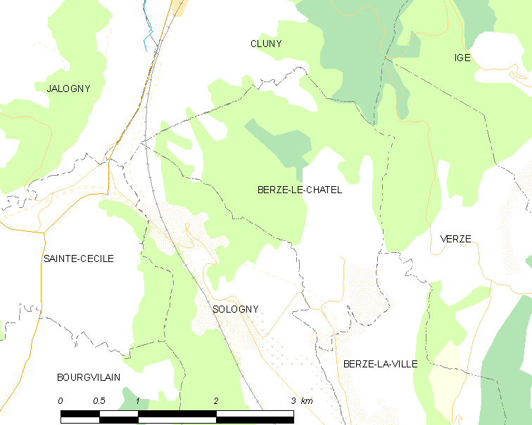 Map of French municipality